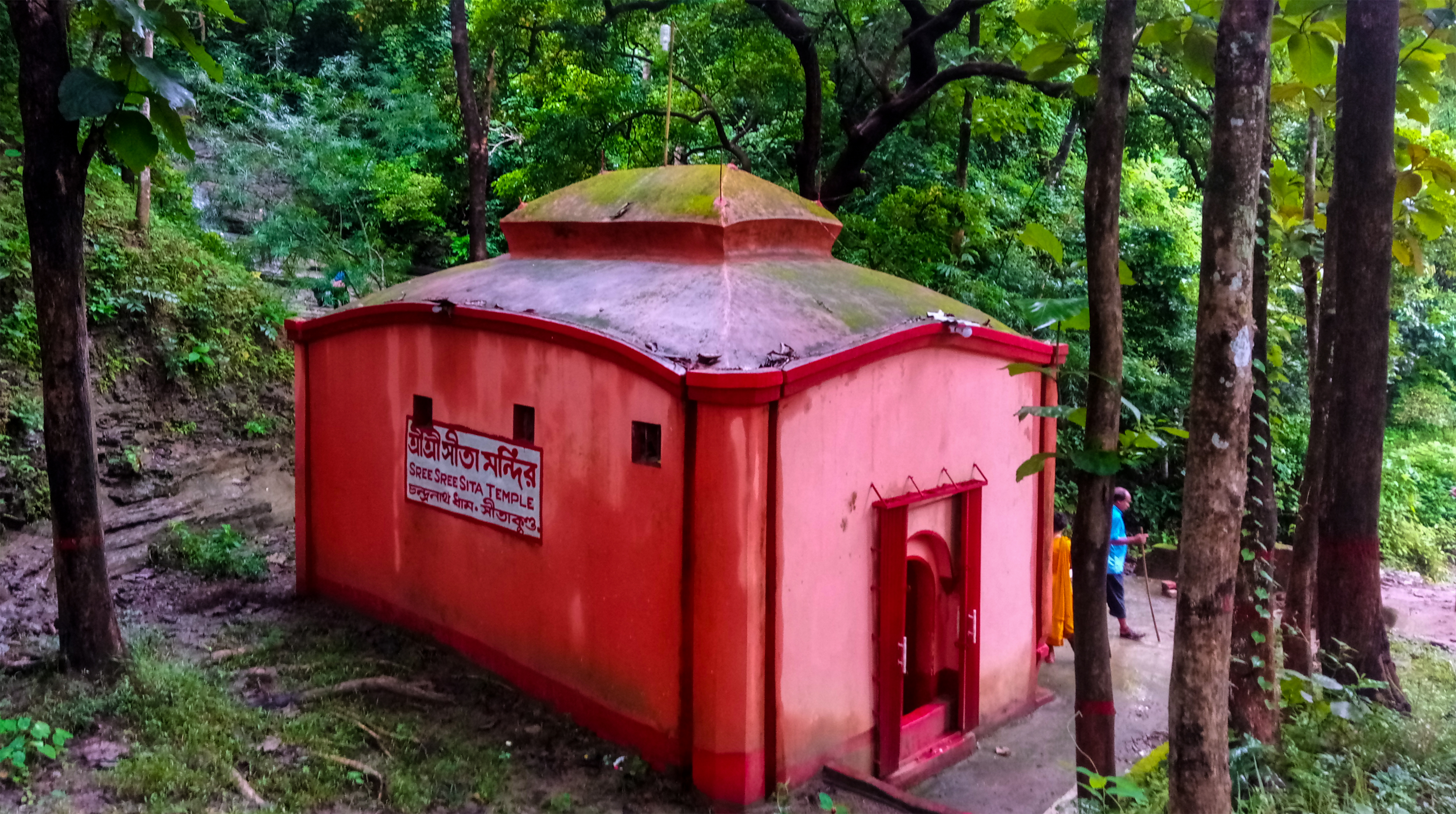 Sri Sri Sita Temple (east-west exposure), Temple Rd, Chandranath Dham, Sitakunda, Chittagong.